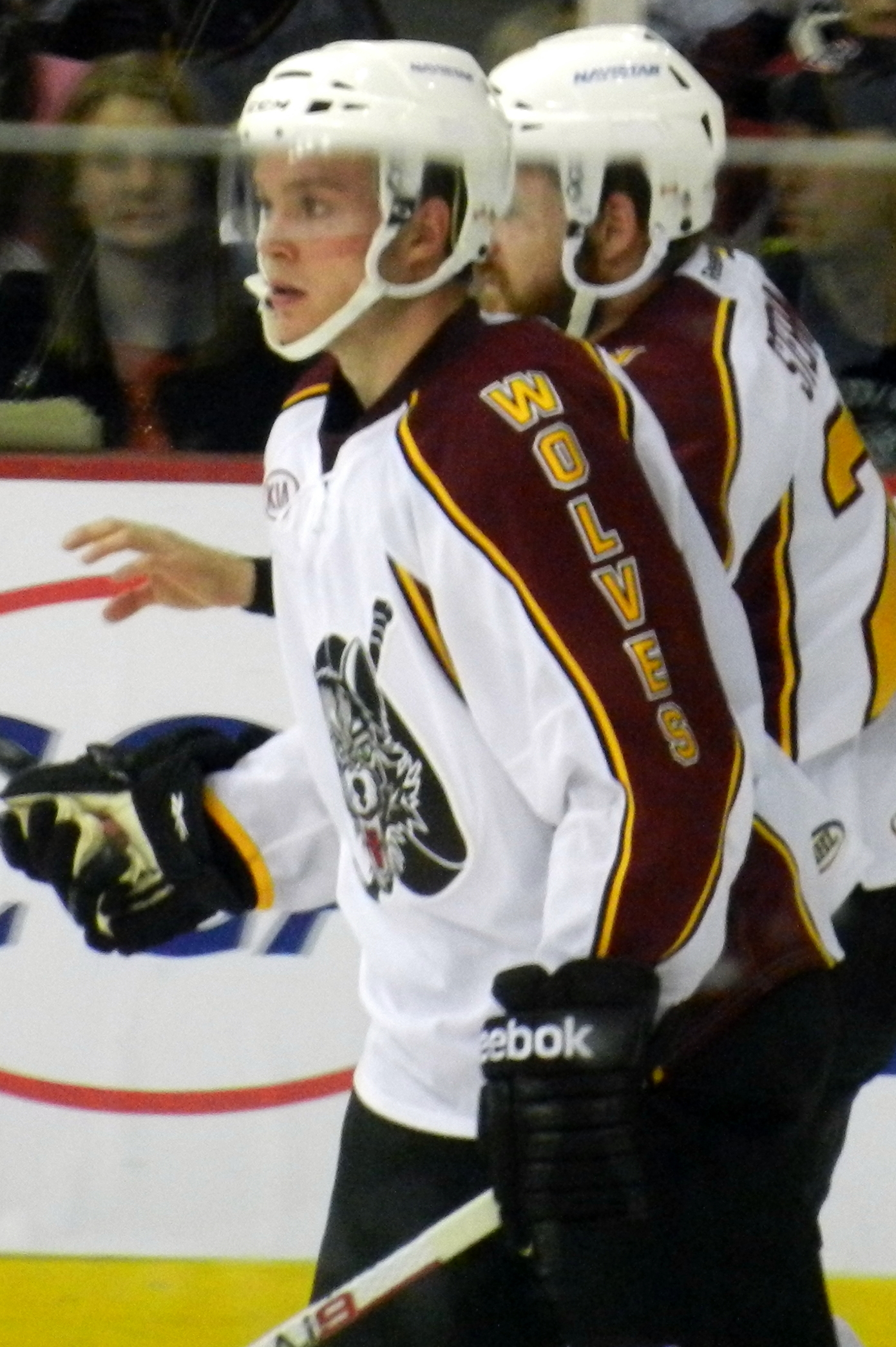 Patrick Mullen playing for the Chicago Wolves during the 2012-13 AHL season